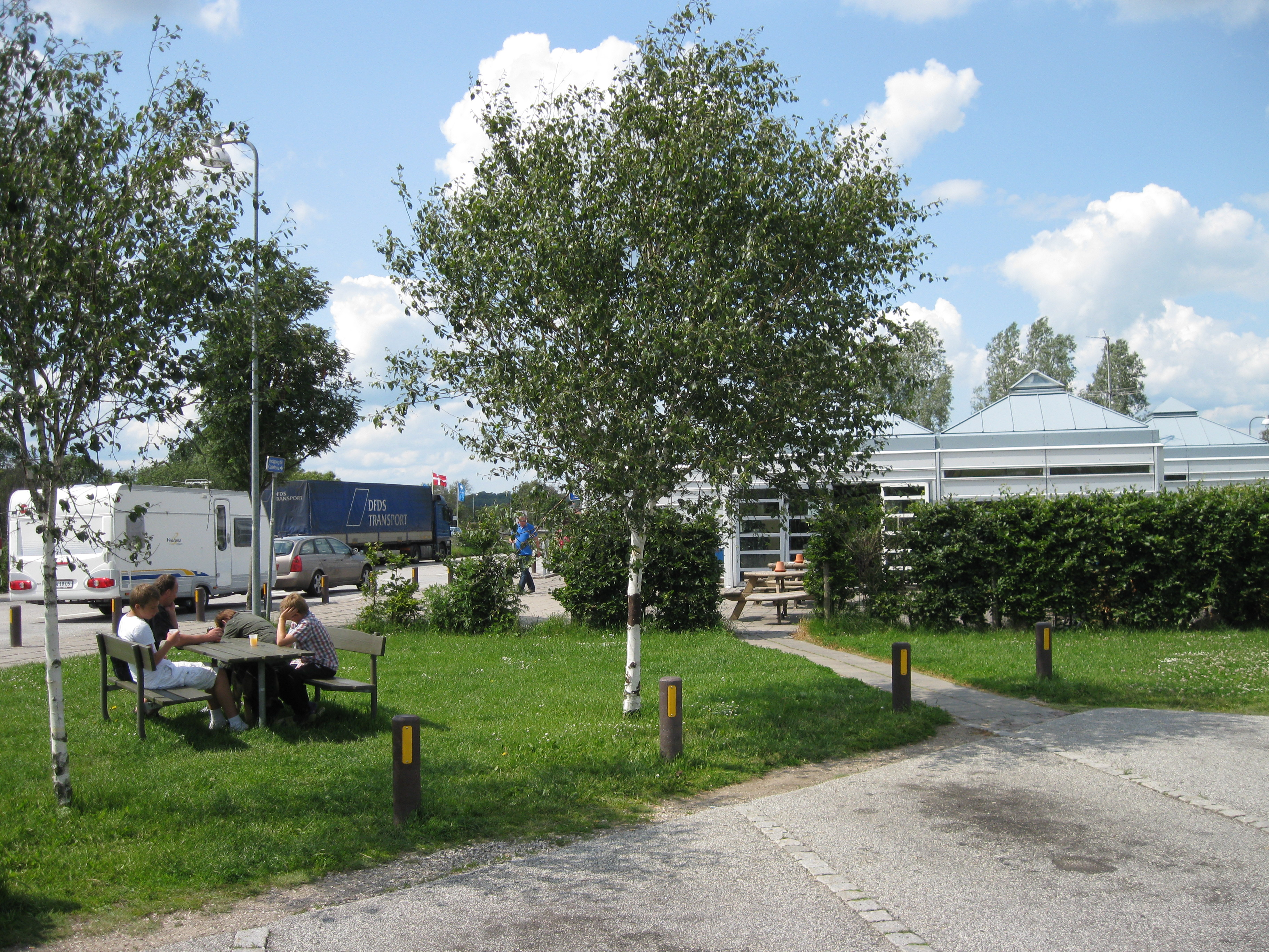 Rest area Gudenå Øst on highway E45, Denmark